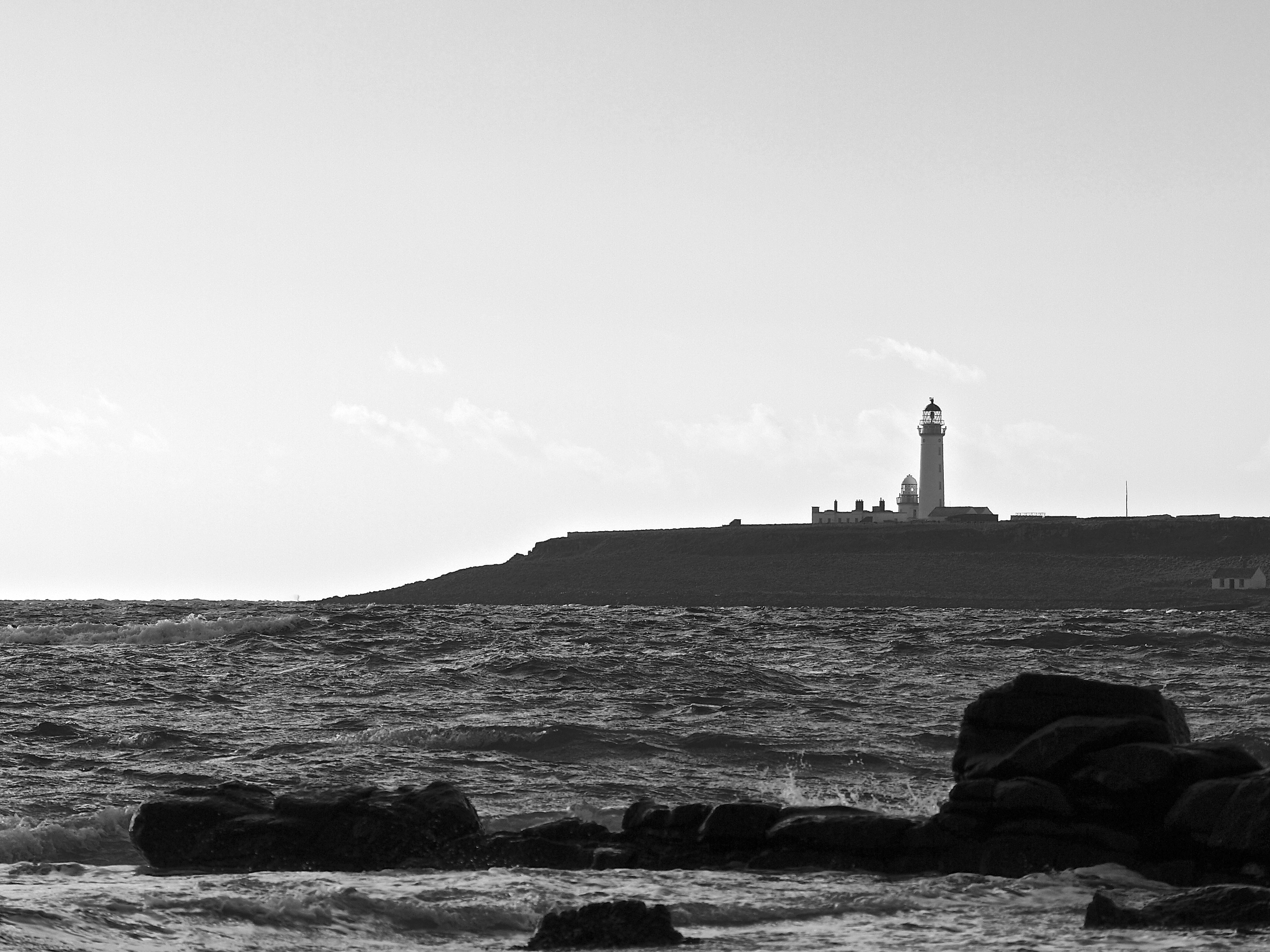 Lighthouse on Pladda off the south end of the Isle of Arran, Firth of Clyde, as seen from Kildonnan, Isle of Arran.